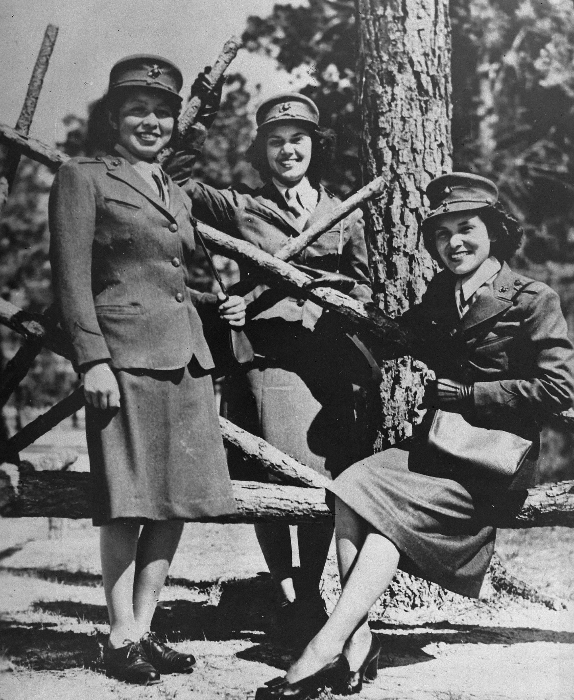 Scope and content: Original caption: American Indian women too have joined the fighting forces against Germany and Japan. These three are members of the U.S. Marine Corps. They are [left to right] Minnie Spotted Wolf of the Blackfeet, Celia Mix, Potawatomi, and Violet Eastman, Chippewa.